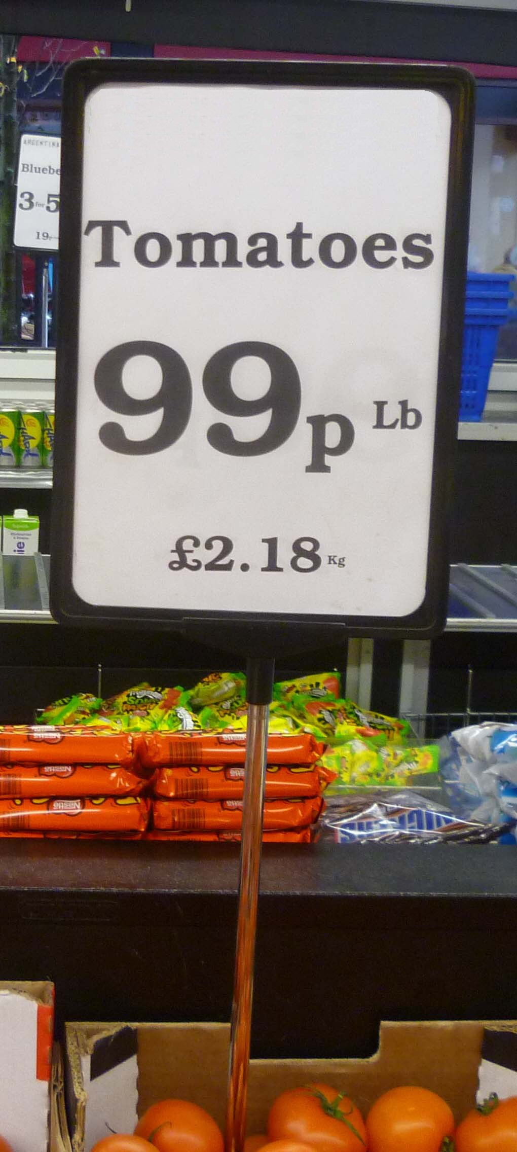 Tomatoes for sale in a UK greengrocer's shop 2013